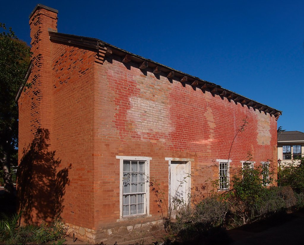 First Brick House (the first house built of brick in California), Monterey State Historic Park, Monterey, California, USA. Viewed from the southeast. Built by Gallant Duncan Dickenson b. 1806 and Amos Giles Lawrey b. 1829 - who together, took out a patent for the bricks.